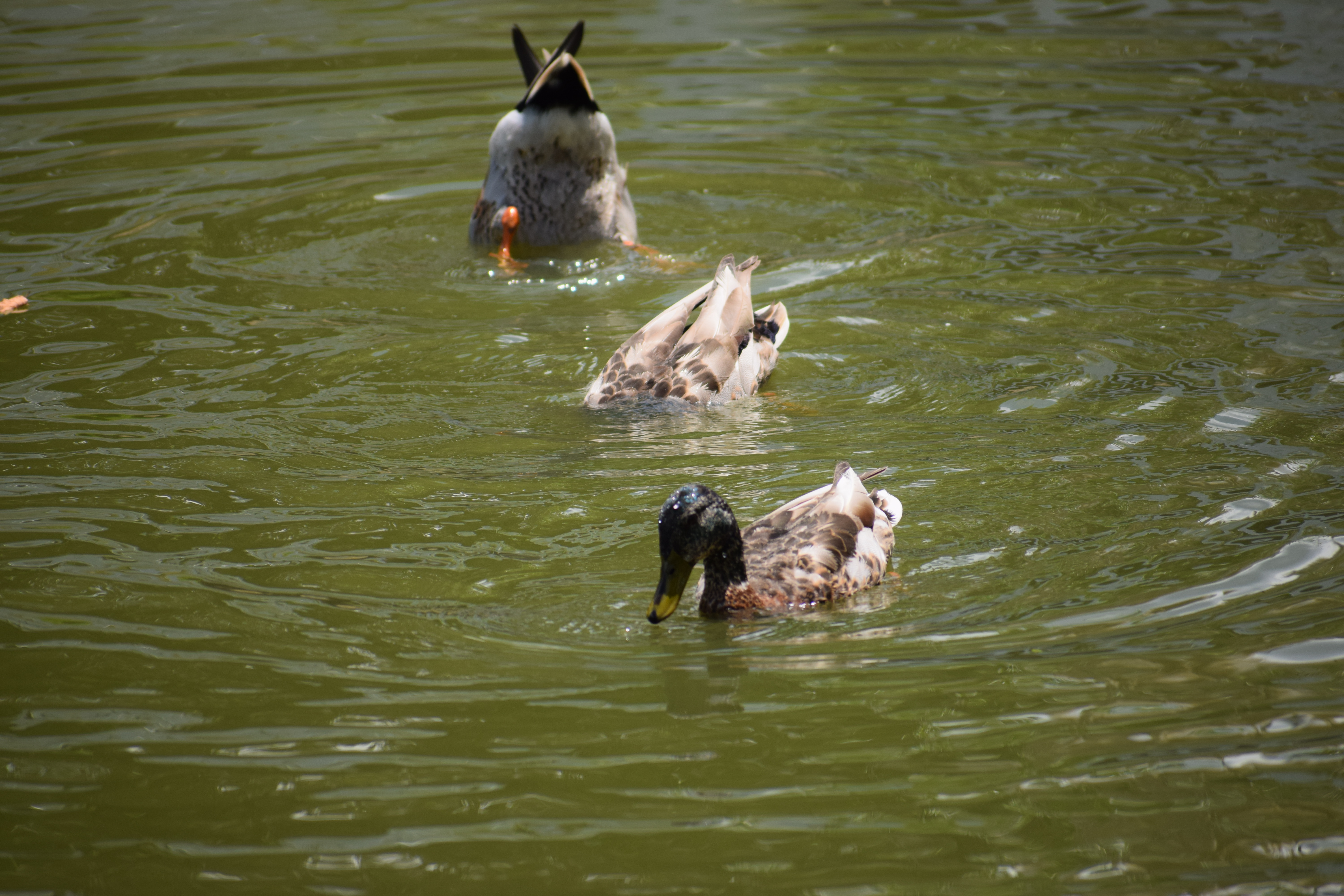 Mallard (Anas platyrhynchos), three males feeding under water, showing three stages: Top - all the way in and feeding Middle - on the way Bottom - preparing